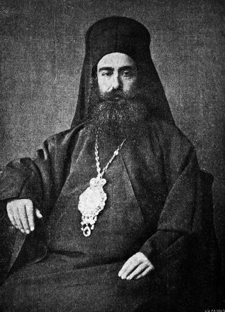 Grigorios Prodromou